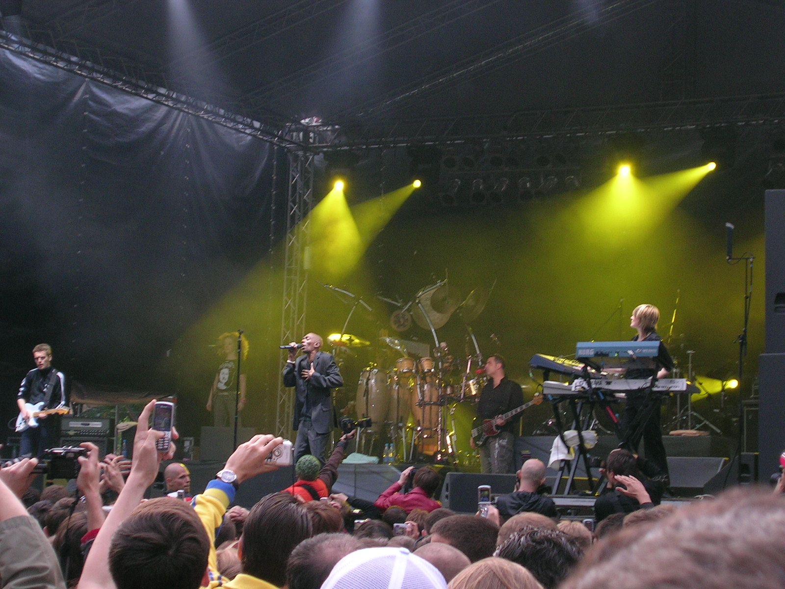 Faithless Concert in Moscow at the Hermitage Garden 2005-06-03